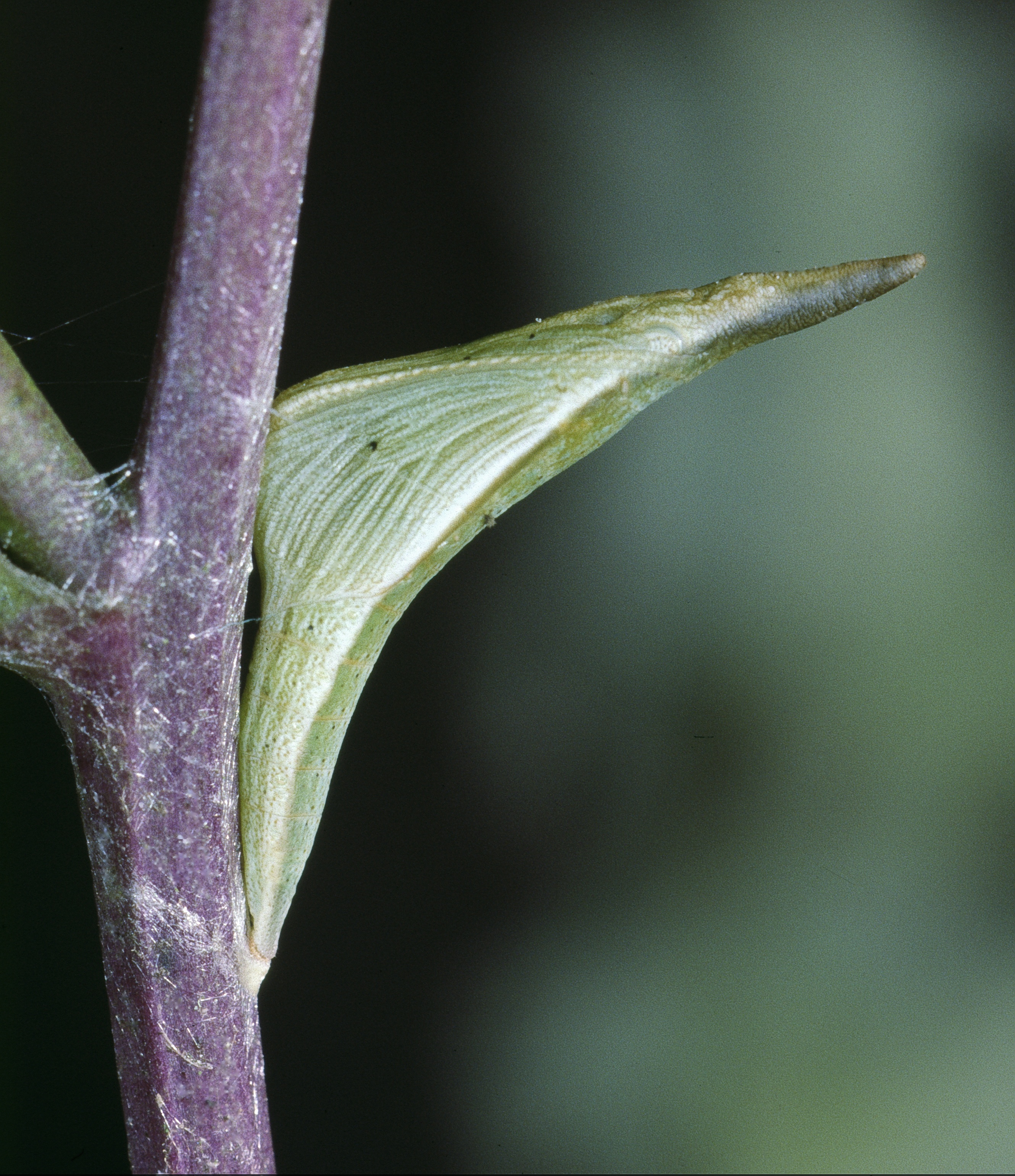 Chrysalis of Anthocharis cardamines